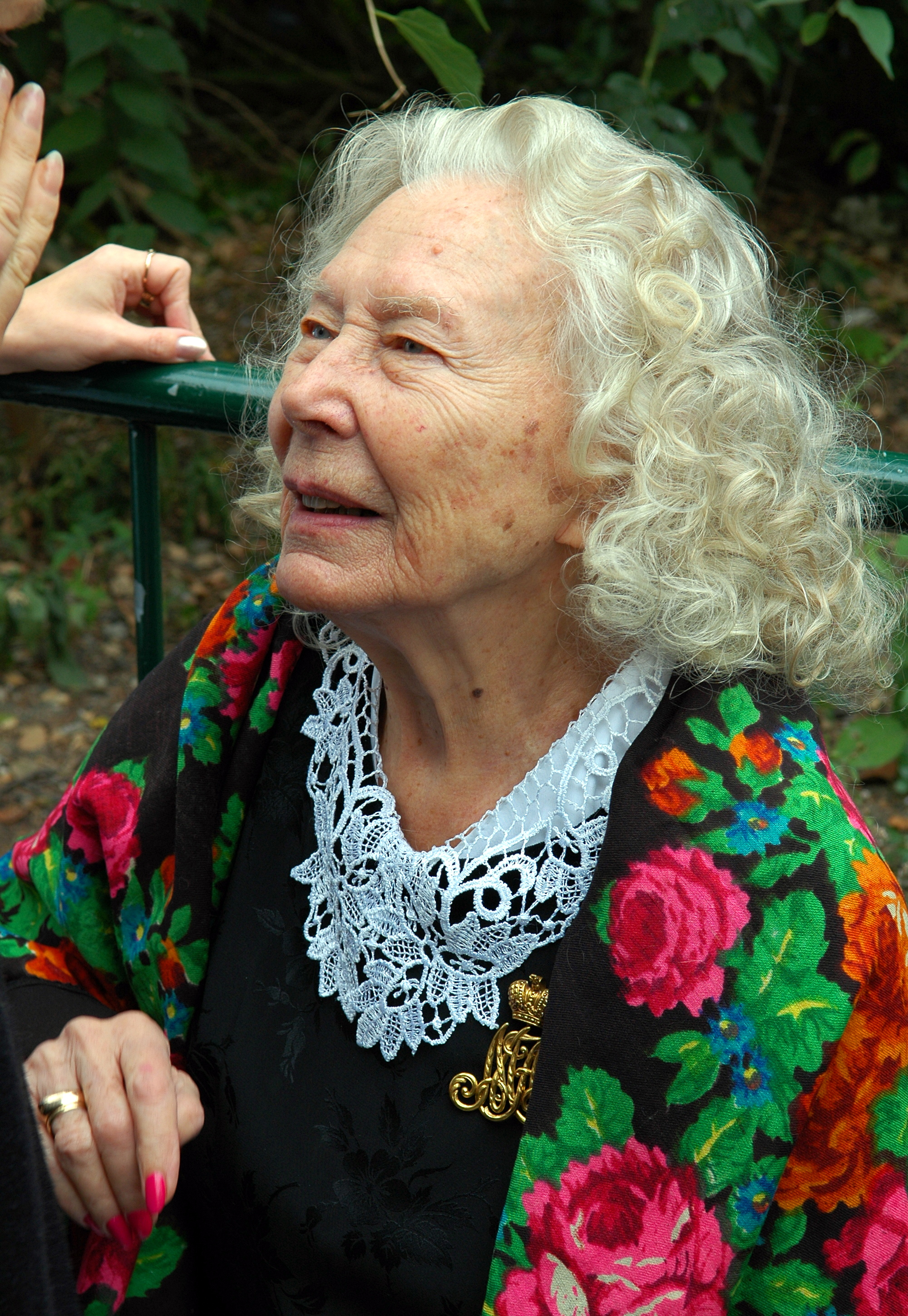 Marina Denikina in front of the Alexander Nevsky Cathedral in Paris.